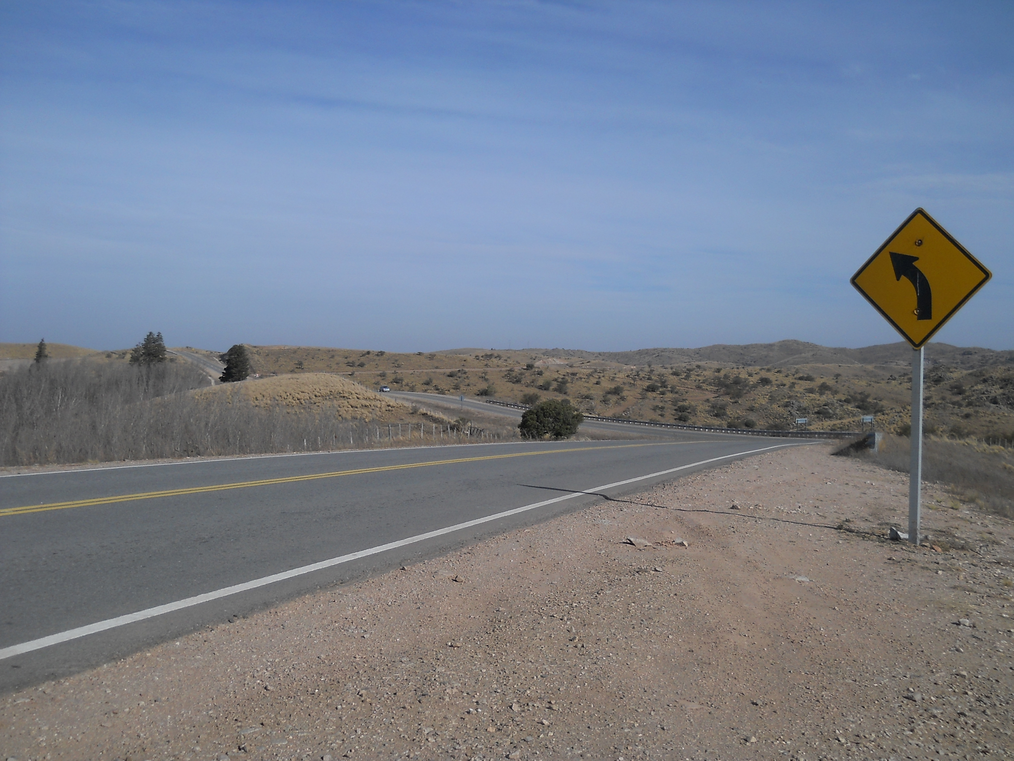 Cuadrado road